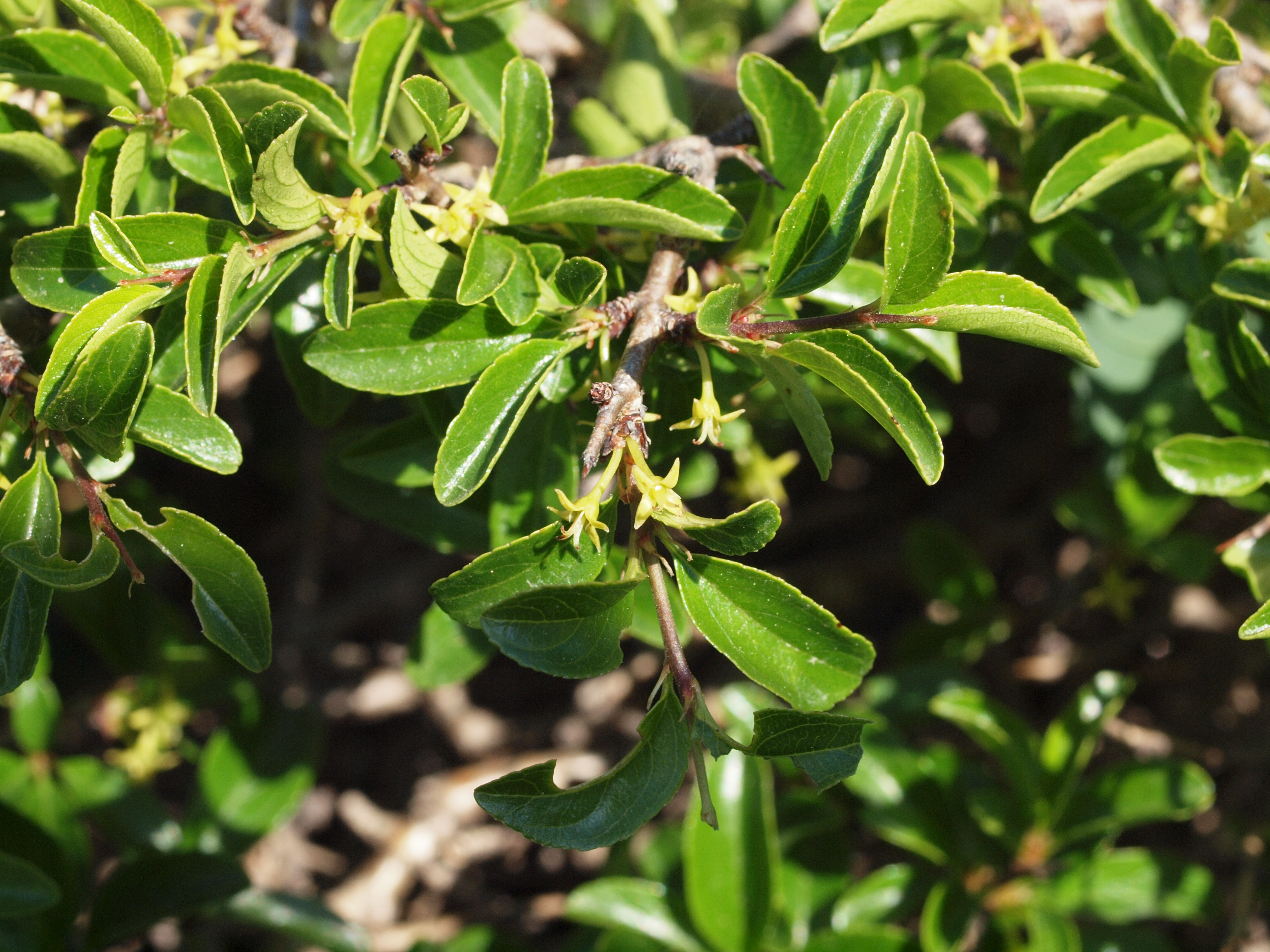 Rhamnus saxatilis, Orjen Montenegro